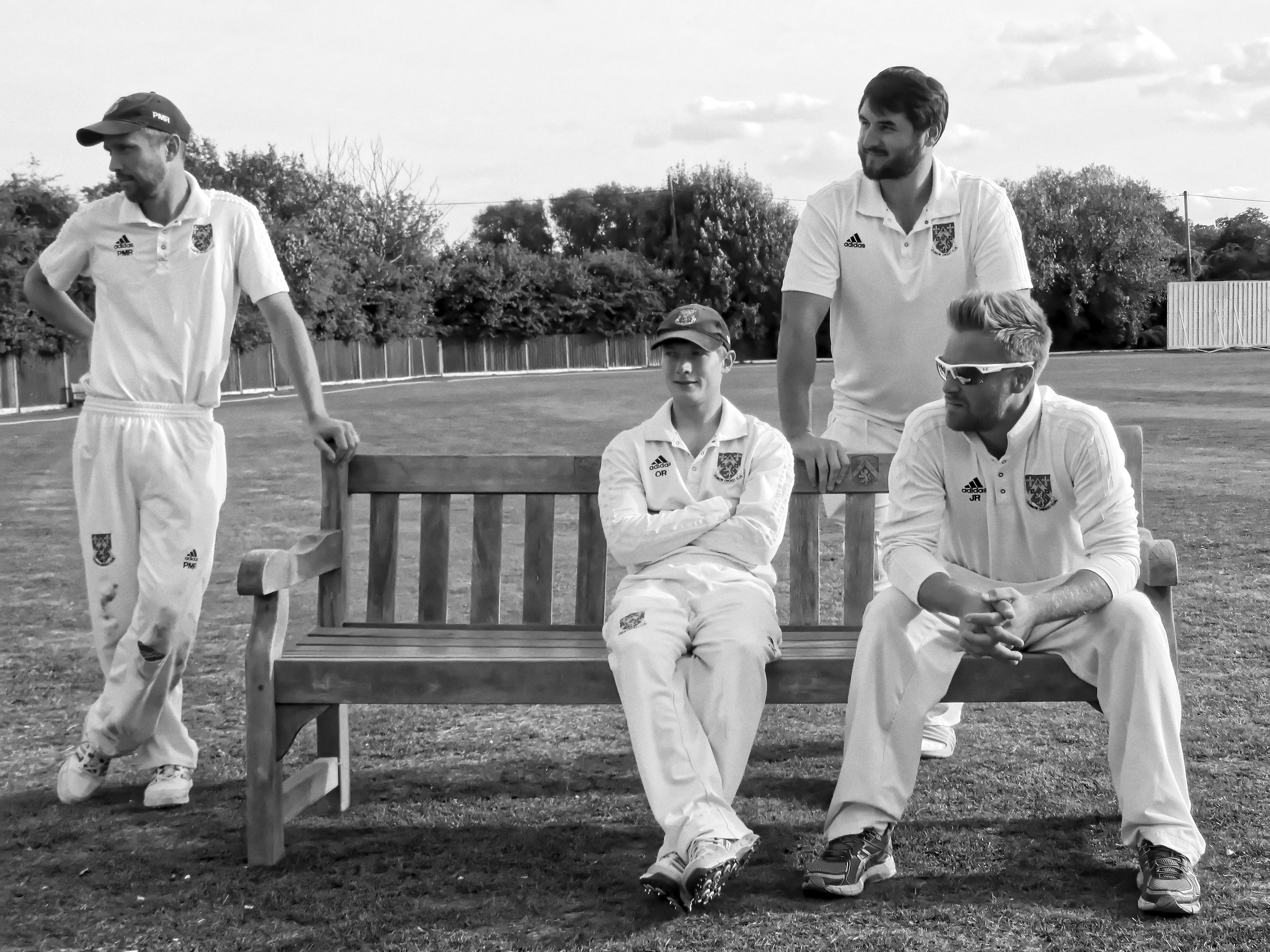 Ilford FP4 Plus 125 black & white emulation of a Dunmow Cricket Club 1st XI photo-shoot portrait after a Saturday public Two Counties Championship [Suffolk/Essex] Division 3 cricket match between Dunmow Cricket Club 1st XI and Brockley Cricket Club 1st XI, at Great Dunmow, Essex, England.Mobile device view: Wikimedia (as at 2018) makes it difficult to immediately view photo groups related to this image. To see its most relevant allied photos, click on Dunmow Cricket Club, Brockley Cricket Club, and this uploader's Cricket photos. You can add a beta click-through 'categories' button to the very bottom of photo-pages you view by going to settings... three-bar icon top left.Desktop view: Wikimedia (as at 2018) makes it difficult to immediately view the helpful category links where you can find images related to this one in a variety of ways; for these go to the very bottom of the page.This image is one of a series of date and/or subject allied consecutive photographs kept in progression or location by file name number and/or time marking.Camera: Canon PowerShot SX60 HSSoftware: File lens-corrected, optimized, perhaps cropped, with DxO PhotoLab, and likely further optimized with Adobe Photoshop CS2. The digital original is here converted to analogue black and white Ilford FP4 Plus 125 emulation with associated grain, using DXO Filmpack 5 Elite.